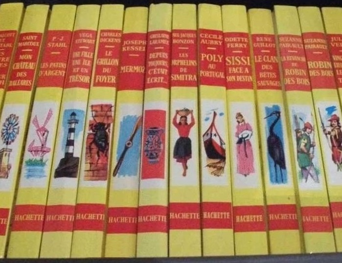 Books, Idéal-Bibliothèque, Hachette publisher